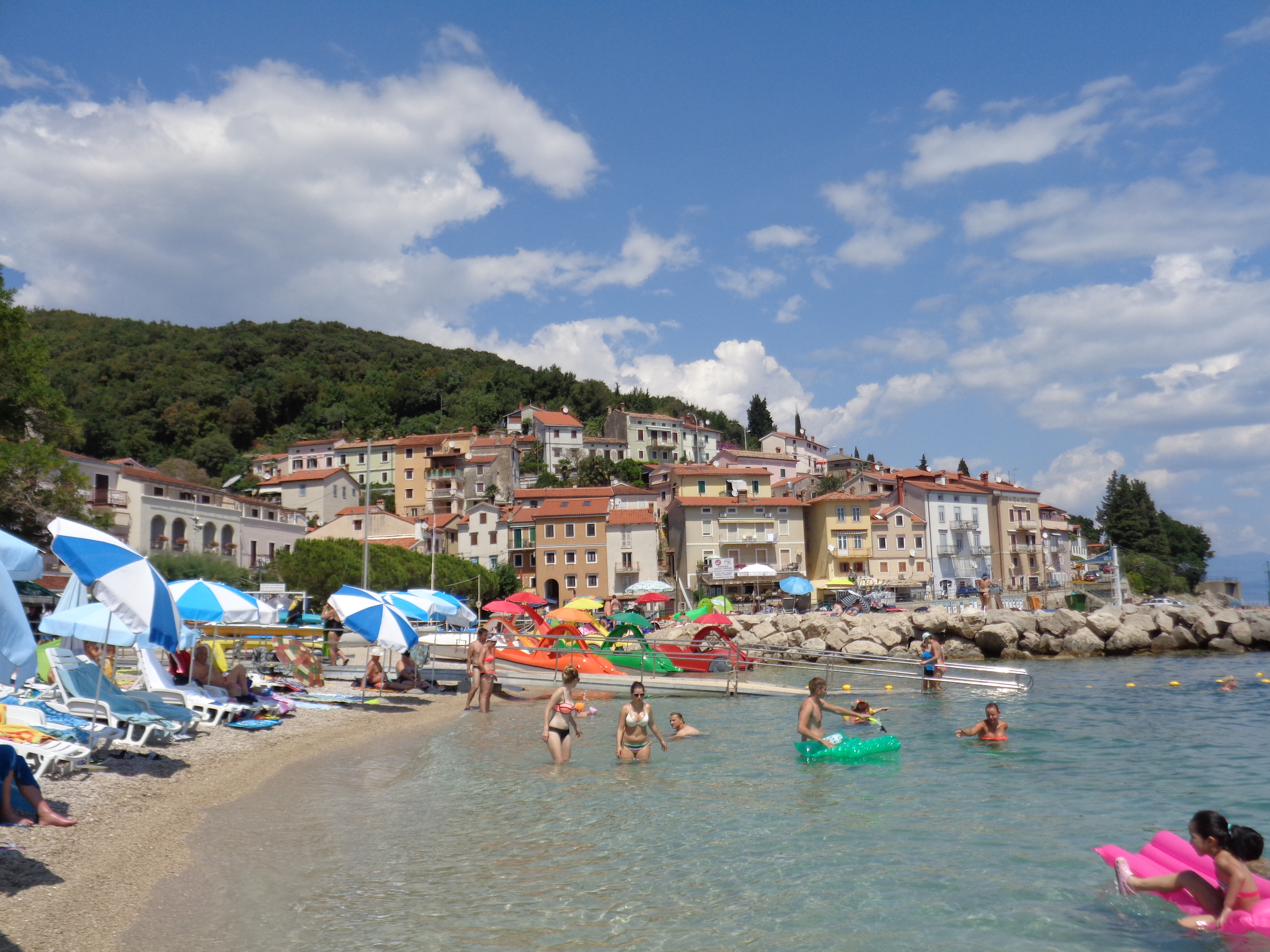 Mošćenička Draga, Primorje-Gorski Kotar County, Croatia - beach in front of the Mediteran Hotel